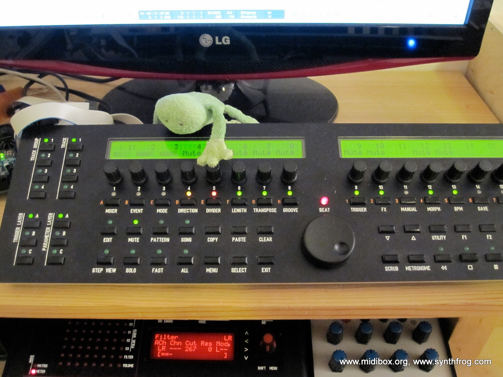 MIDIbox SEQ V4 - 16 Track Live Step and Morph Sequencer + advanced Arpeggiator